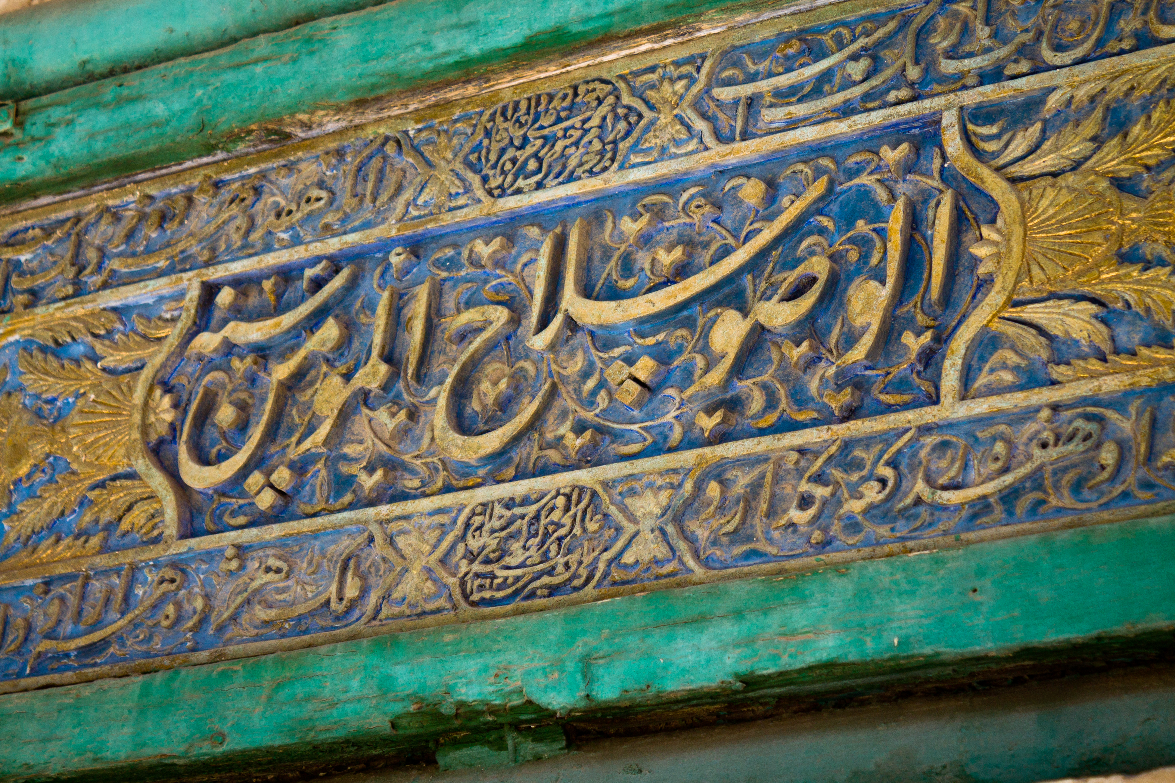 The great Mosque of Muhammad Ali Pasha or Alabaster Mosque (Arabic: مسجد محمد علي, Turkish: Mehmet Ali Paşa Camii) is a mosque situated in the Citadel of Cairo in Egypt and commissioned by Muhammad Ali Pasha between 1830 and 1848. Situated on the summit of the citadel, this Ottoman mosque, the largest to be built in the first half of the 19th century, is, with its animated silhouette and twin minarets, the most visible mosque in Cairo. The mosque was built in memory of Tusun Pasha, Muhammad Ali's oldest son, who died in 1816. This great mosque, along with the citadel, is one of the landmarks and tourist attractions of Cairo and is one of the first features to be seen when approaching the city from no matter which side.